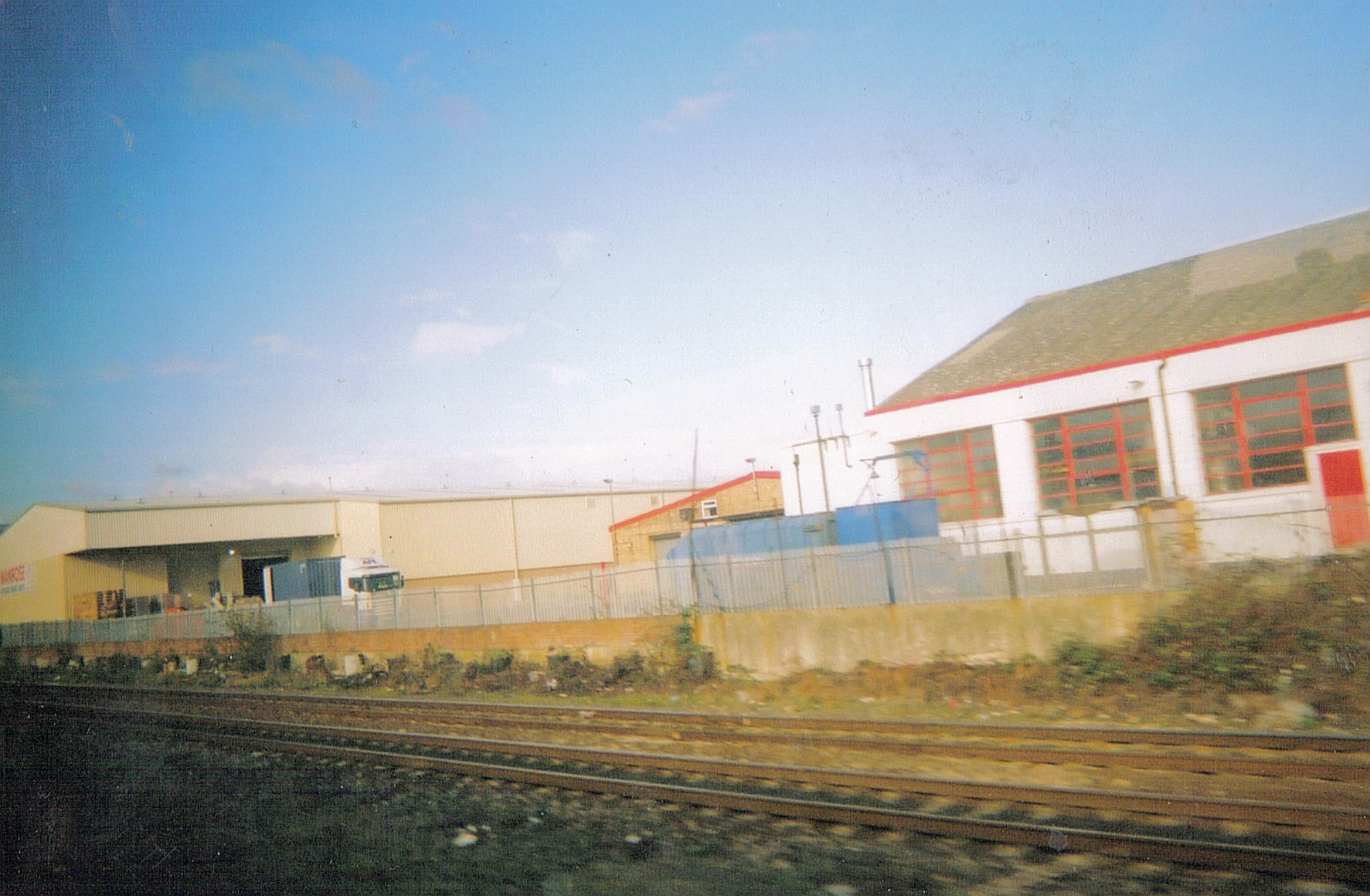 A part of Slough Trading Estate, very near to Slough station, heading towards Paddington.